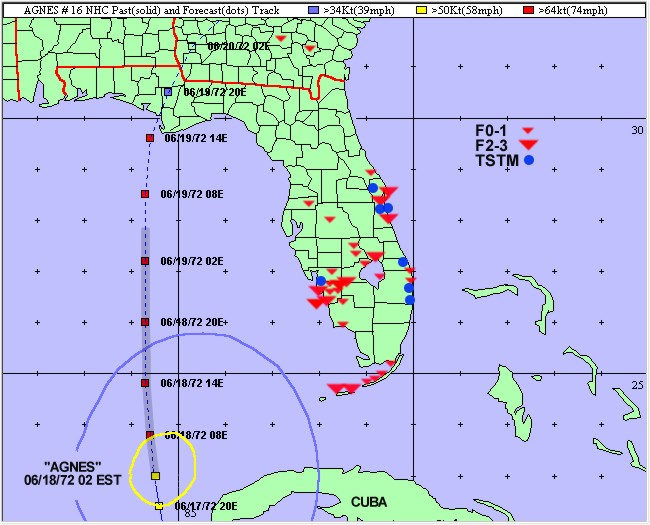 Plot of tornadoes by F-scale and severe thunderstorms of the Agnes outbreak. Agnes is shown at 0200 EDT 18 June 1972 with wind field radii just before the first tornado report in the Keys. Six-hourly positions are shown on the track. The heavy shaded part of the track marks the period when Agnes's rainbands were producing tornadoes.